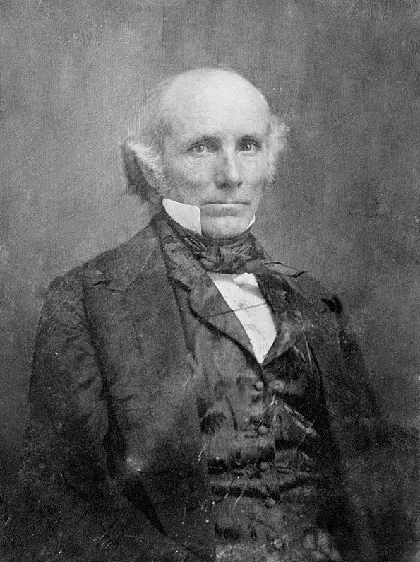 Mississippi politician Henry S. Foote. Democratic Senator from Mississippi, 1847-1852; Governor of Mississippi, 1852-1854; Superindentent of the U.S. Mint at New Orleans.